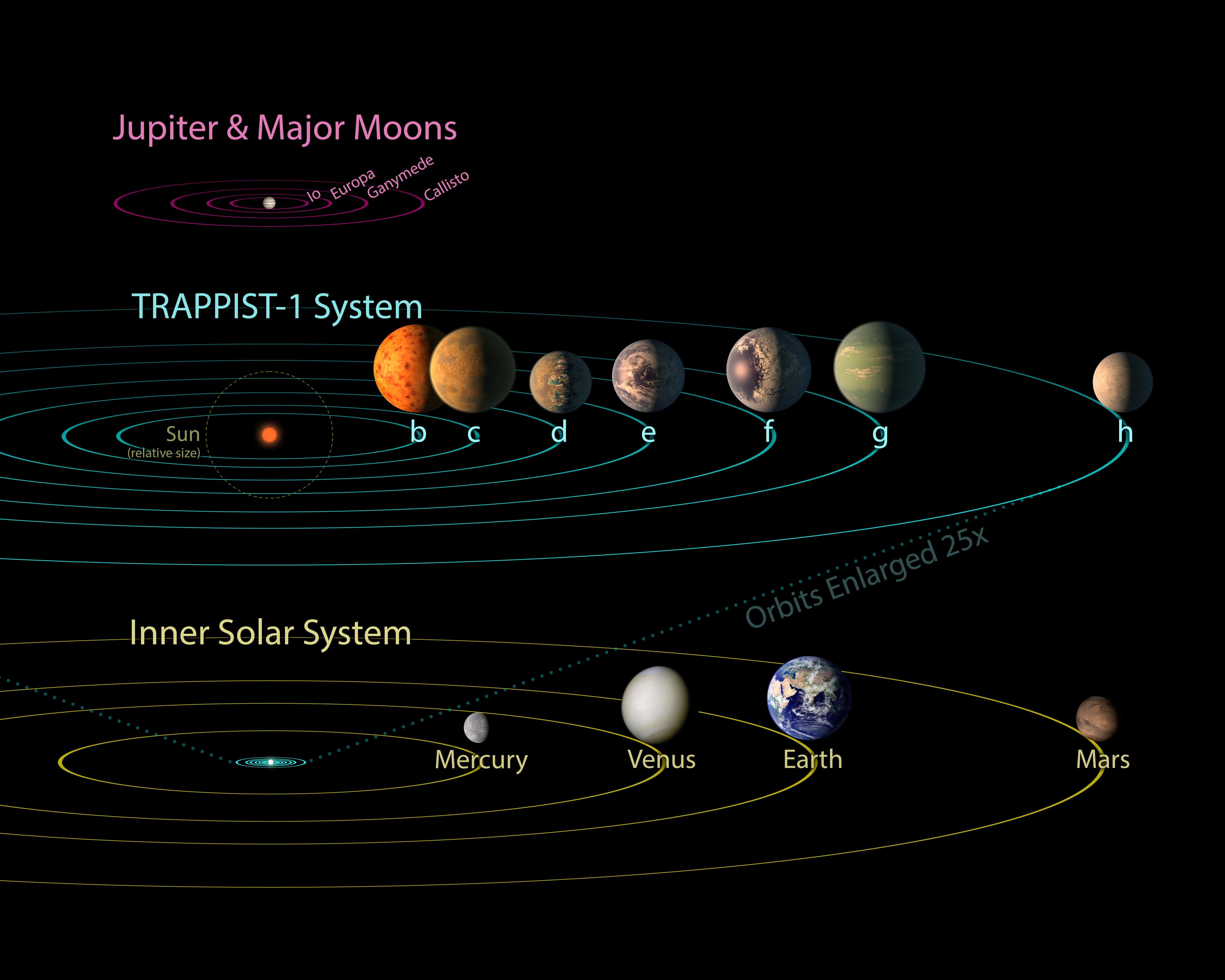 All seven planets discovered in orbit around the red dwarf star TRAPPIST-1 could easily fit inside the orbit of Mercury, the innermost planet of our solar system. In fact, they would have room to spare. TRAPPIST-1 also is only a fraction of the size of our sun; it isn't much larger than Jupiter. So the TRAPPIST-1 system's proportions look more like Jupiter and its moons than those of our solar system. The seven planets of TRAPPIST-1 are all Earth-sized and terrestrial, according to research published in 2017 in the journal Nature. TRAPPIST-1 is an ultra-cool dwarf star in the constellation Aquarius, and its planets orbit very close to it. The system has been revealed through observations from NASA's Spitzer Space Telescope and the ground-based TRAPPIST (TRAnsiting Planets and PlanetesImals Small Telescope) telescope, as well as other ground-based observatories. The system was named for the TRAPPIST telescope. NASA's Jet Propulsion Laboratory, Pasadena, California, manages the Spitzer Space Telescope mission for NASA's Science Mission Directorate, Washington. Science operations are conducted at the Spitzer Science Center at Caltech, also in Pasadena. Spacecraft operations are based at Lockheed Martin Space Systems Company, Littleton, Colorado. Data are archived at the Infrared Science Archive housed at Caltech/IPAC. Caltech manages JPL for NASA. For more information about the Spitzer mission, visit and